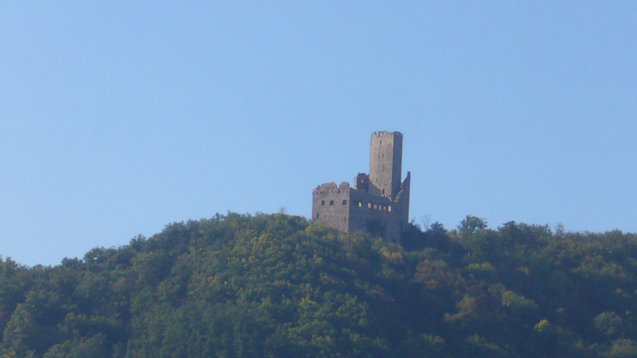 Castle of the Ortenbourg seen from Scherwiller (France)